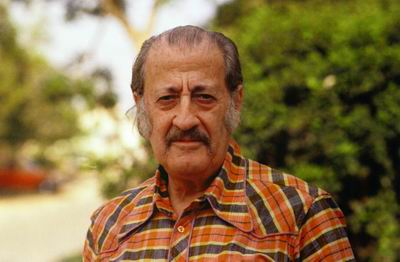 Photograph